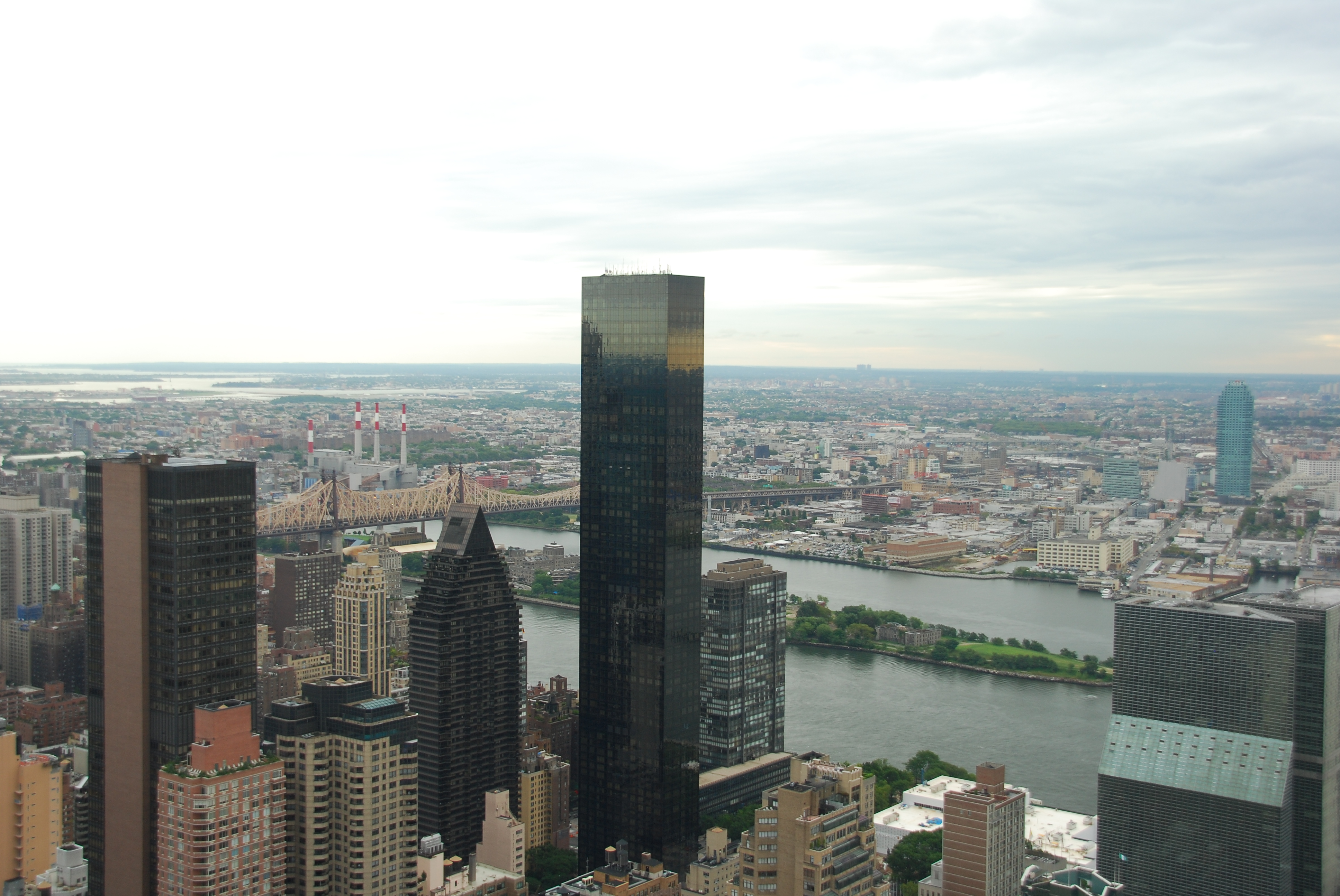 Trump World Tower and East River in Manhattan, New York City.